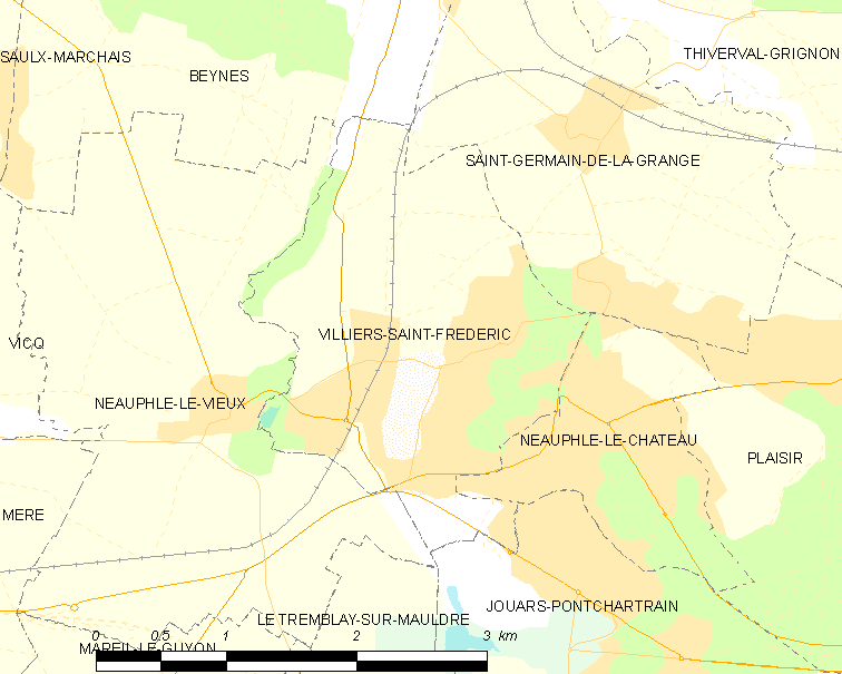 Map of French municipality Villiers-Saint-Fréderic